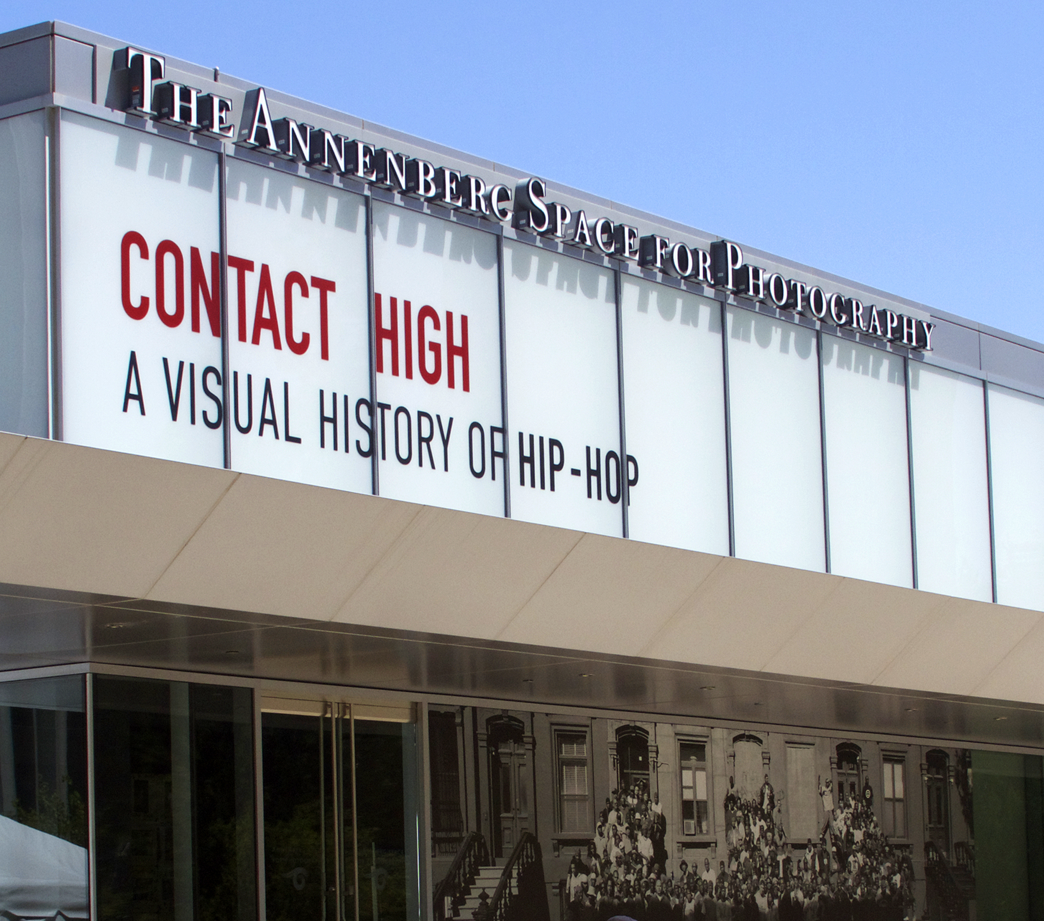 In April of 2019, the exhibit Contact High - A Visual History of Hip Hop, opened at The Annenberg Space for Photography in Century City (Los Angeles), California. It was the most comprehensive exhibit of hip hop photography to date and based on the curator Vikki Tobak's best-selling photography book of the same name (Penguin Random House).